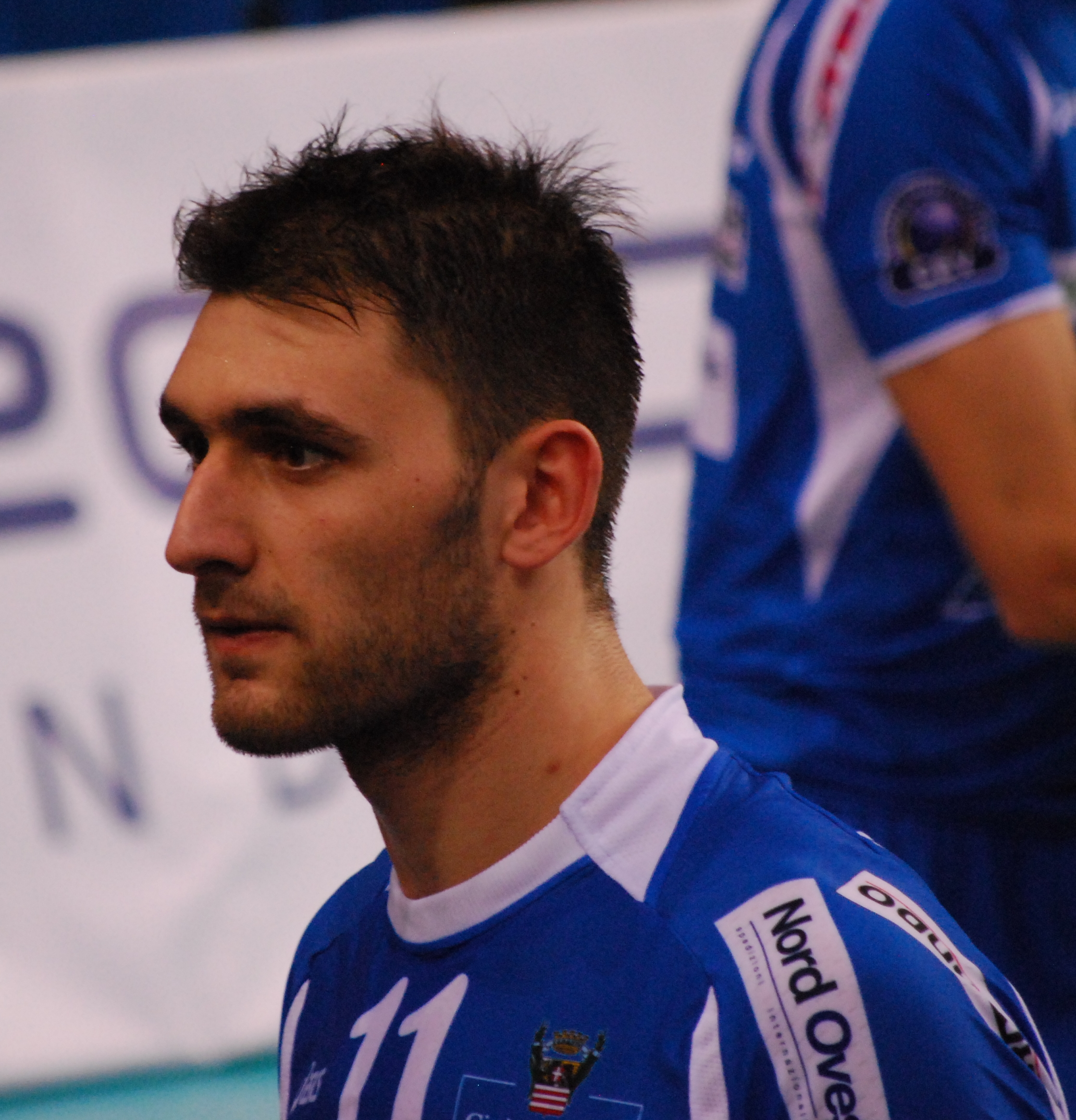 Tsvetan Sokolov